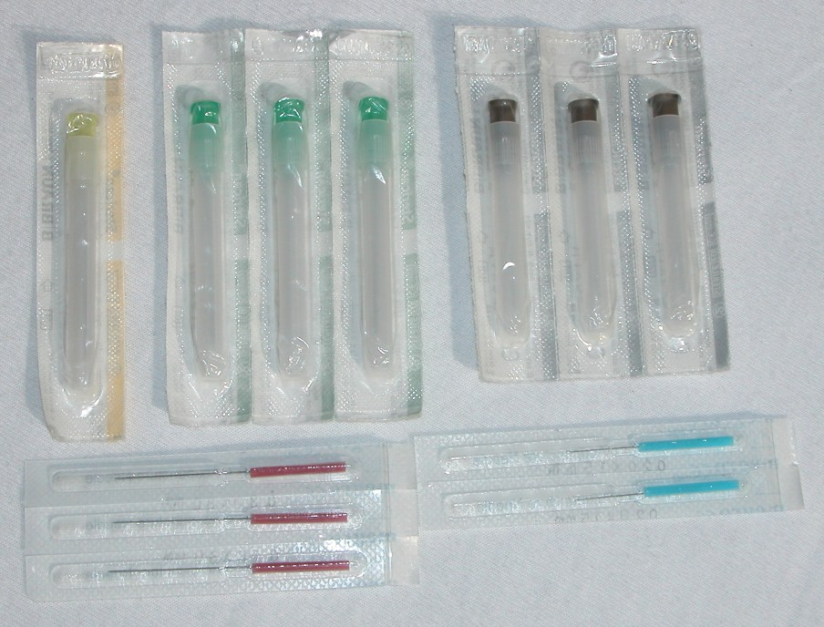 Several different kinds of Cannulas